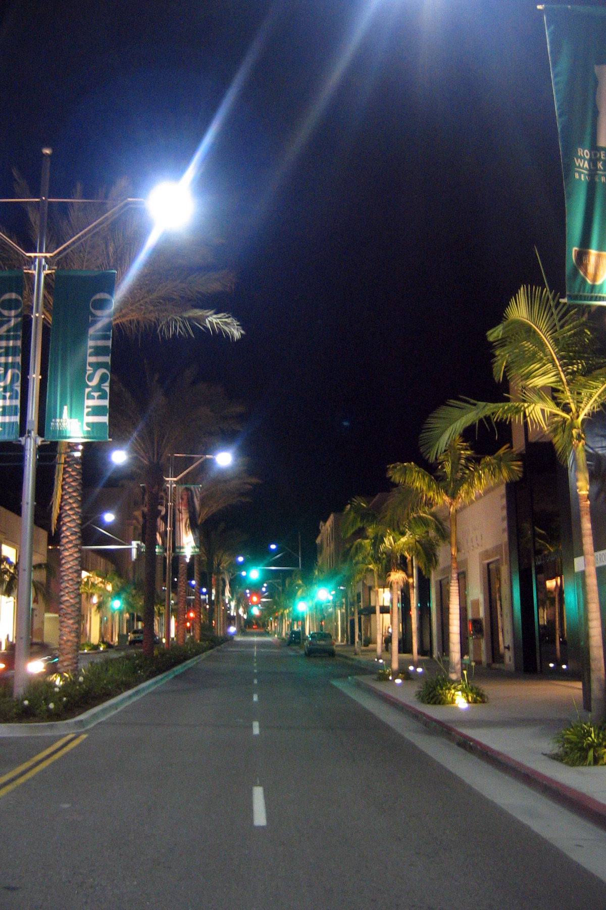 Nighttime view of Rodeo Drive in Beverly Hills, California.